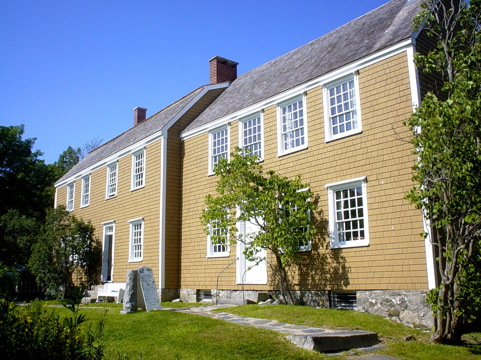 Ross Thompson House and Store, 1785, Shelburne